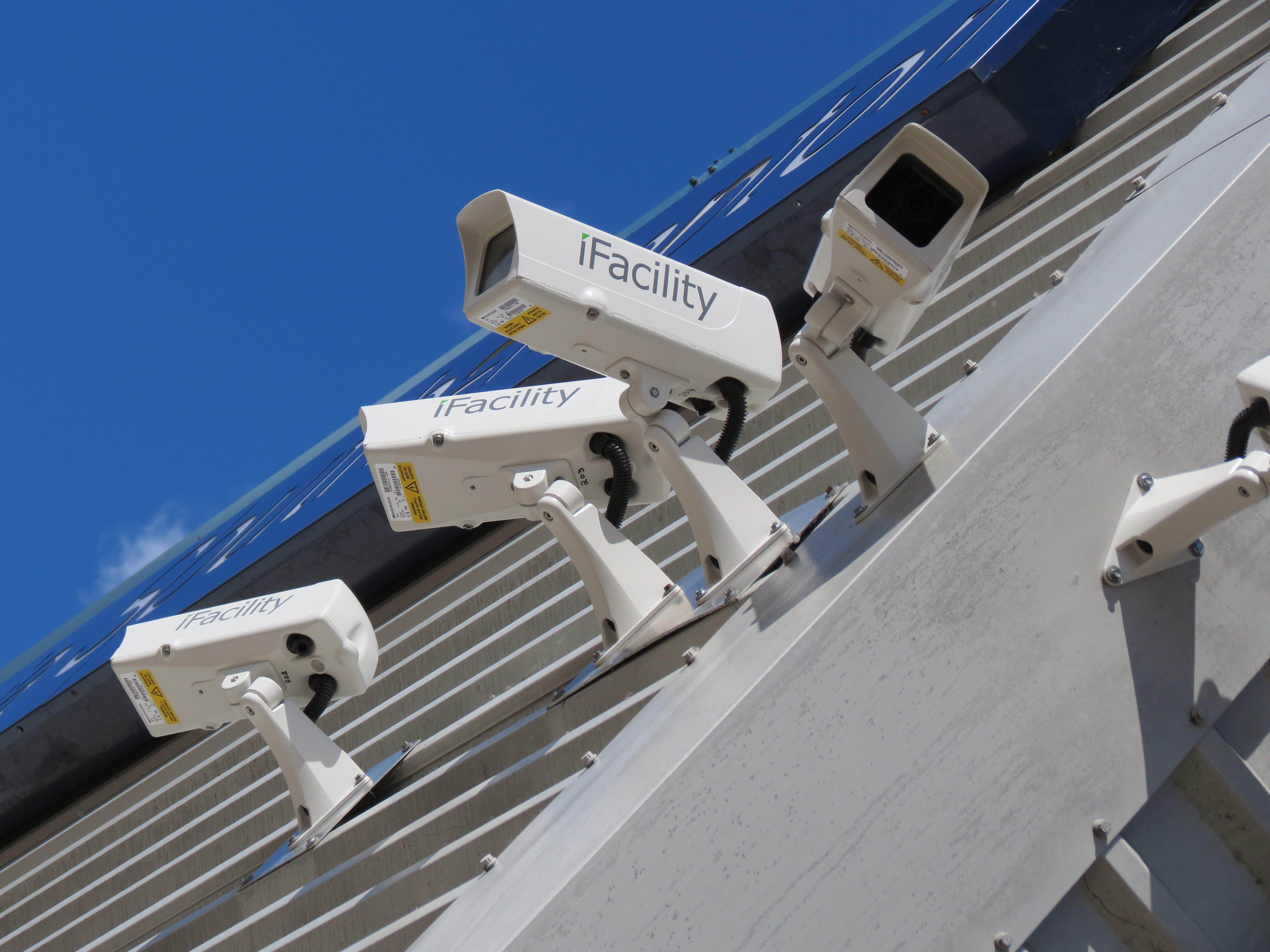 4 CCTV Cameras on corner of building